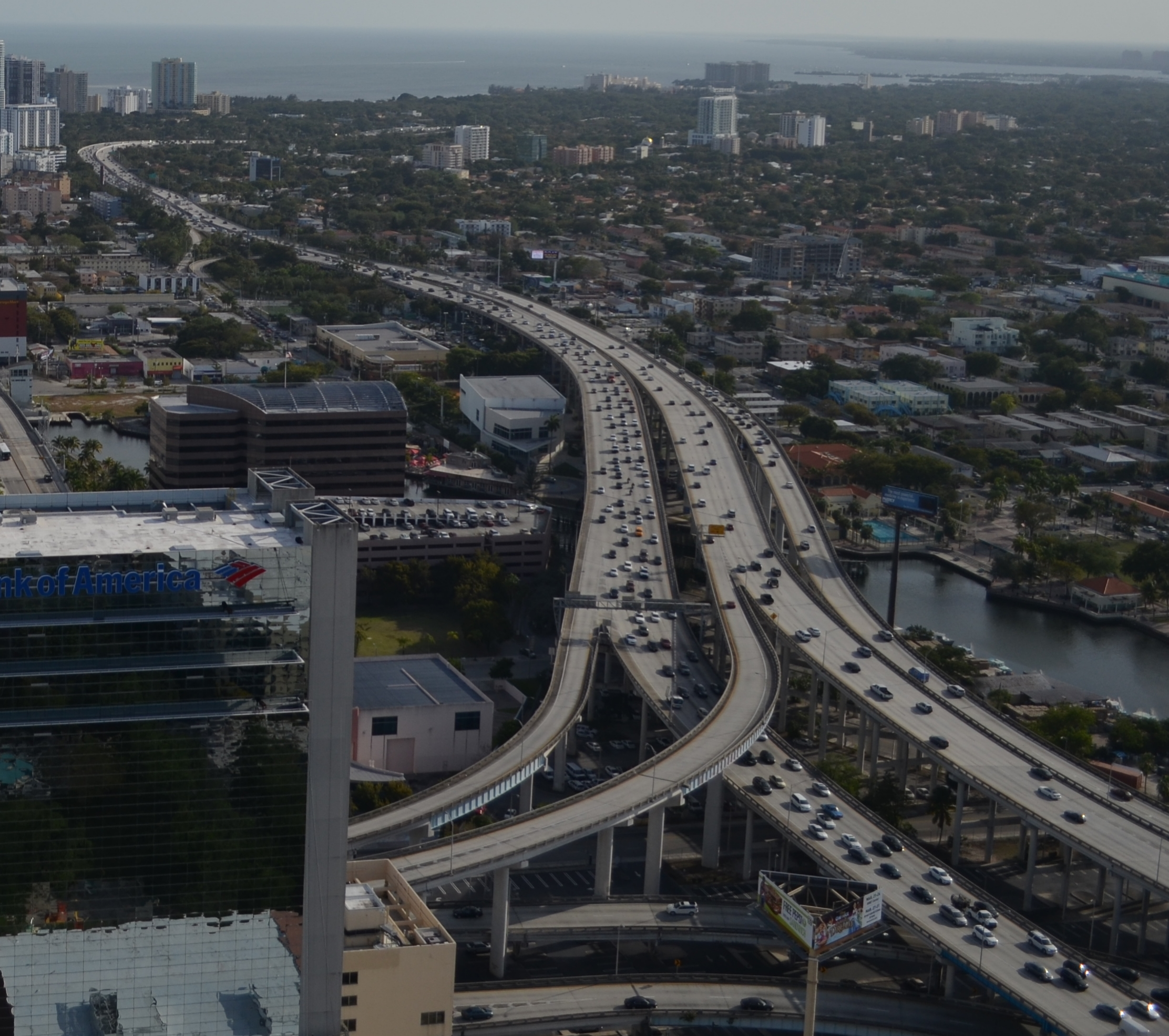 Congestion on Interstate 95 in Florida northbound at it's southern terminus in Downtown Miami.